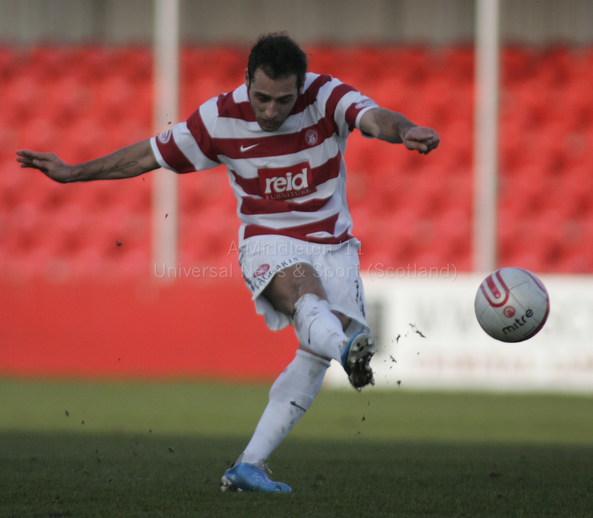 Clydesdale Bank Scottish Premier League - Hamilton Academical vs Dundee United. Hamilton's Flavio Paixiou has a strike on goal, but narrowly goes over, at New Douglas Park, Hamilton. Picture : Alasdair Middleton/Universal News & Sport (Scotland) Saturday 26th February 2011 Universal News and Sport (Europe) All pictures must be credited to (0ffice) 0844 884 51 22